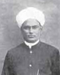 A portrait of G. A. Natesan